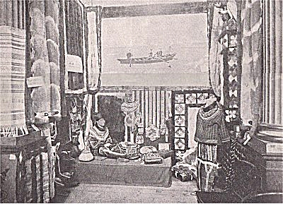 Photograph of the Greenland exhibit at the 1895 Copenhagen Women's Exhibition